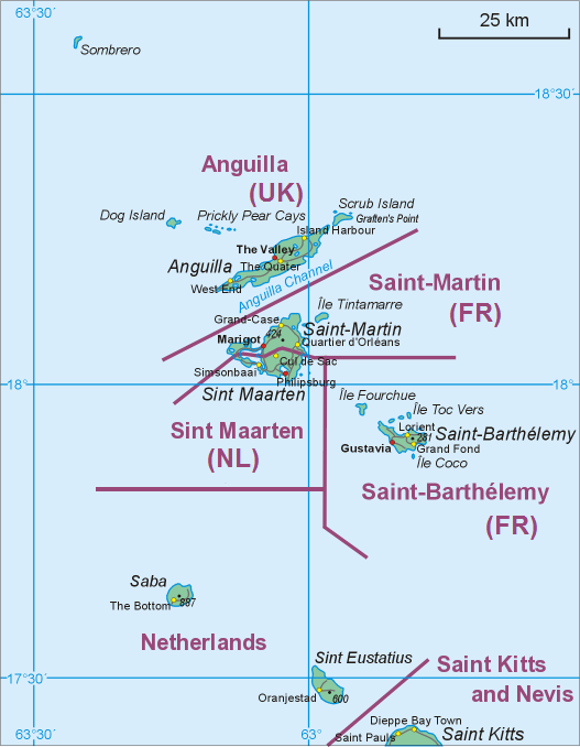 Map of middle part of Leeward Islands (Anguilla, Saint-Martin/Sint Maarten, Saint-Barthélemy, Saba, Sint Eustatius